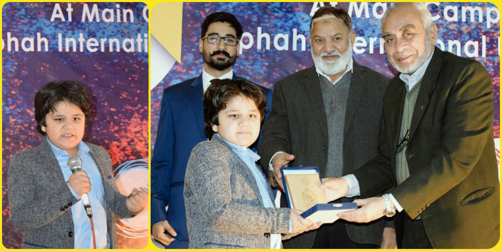 Zidane Hamid Little Professor